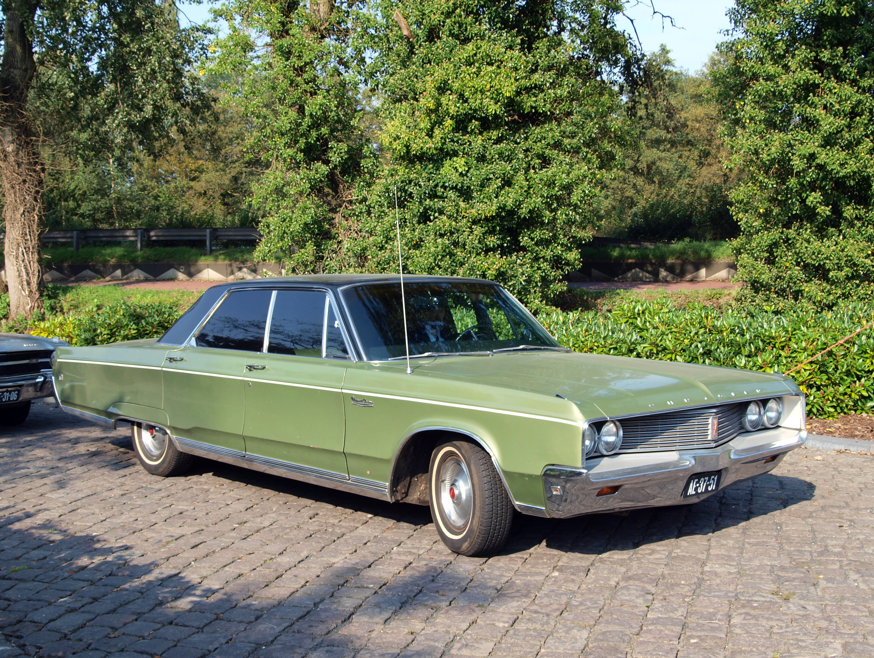 Photographed at the premmesis of the Louwman museum, The Hague, The Netherlands. OLYMPUS DIGITAL CAMERA